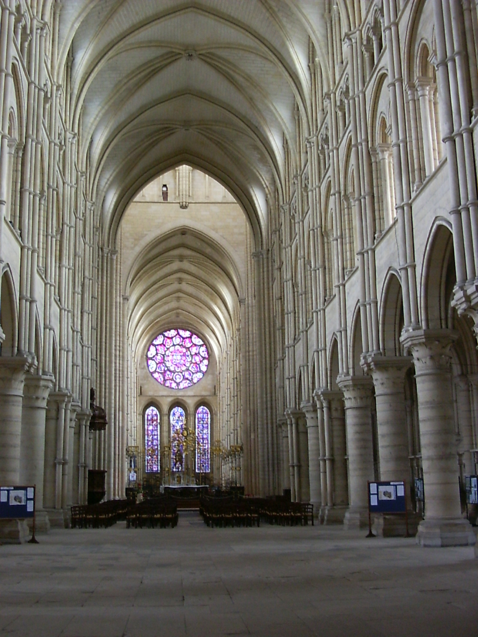 Inside view of the cathedral in Laon - own work by Gebruiker Paul Hermans